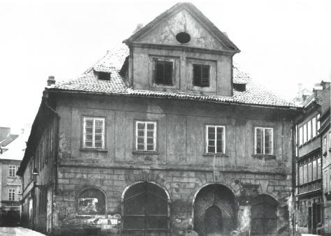 Velký jelenovský dům (number 96) in Prague (Malá Strana), destroyed in 1888.